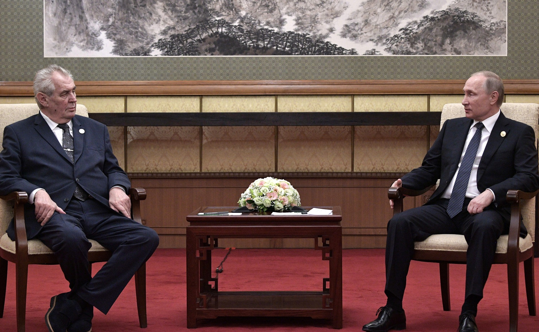 President of the Russian Federation Vladimir Putin with President of the Czech Republic Milos Zeman